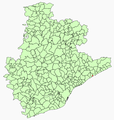 Caldes d'Estrac